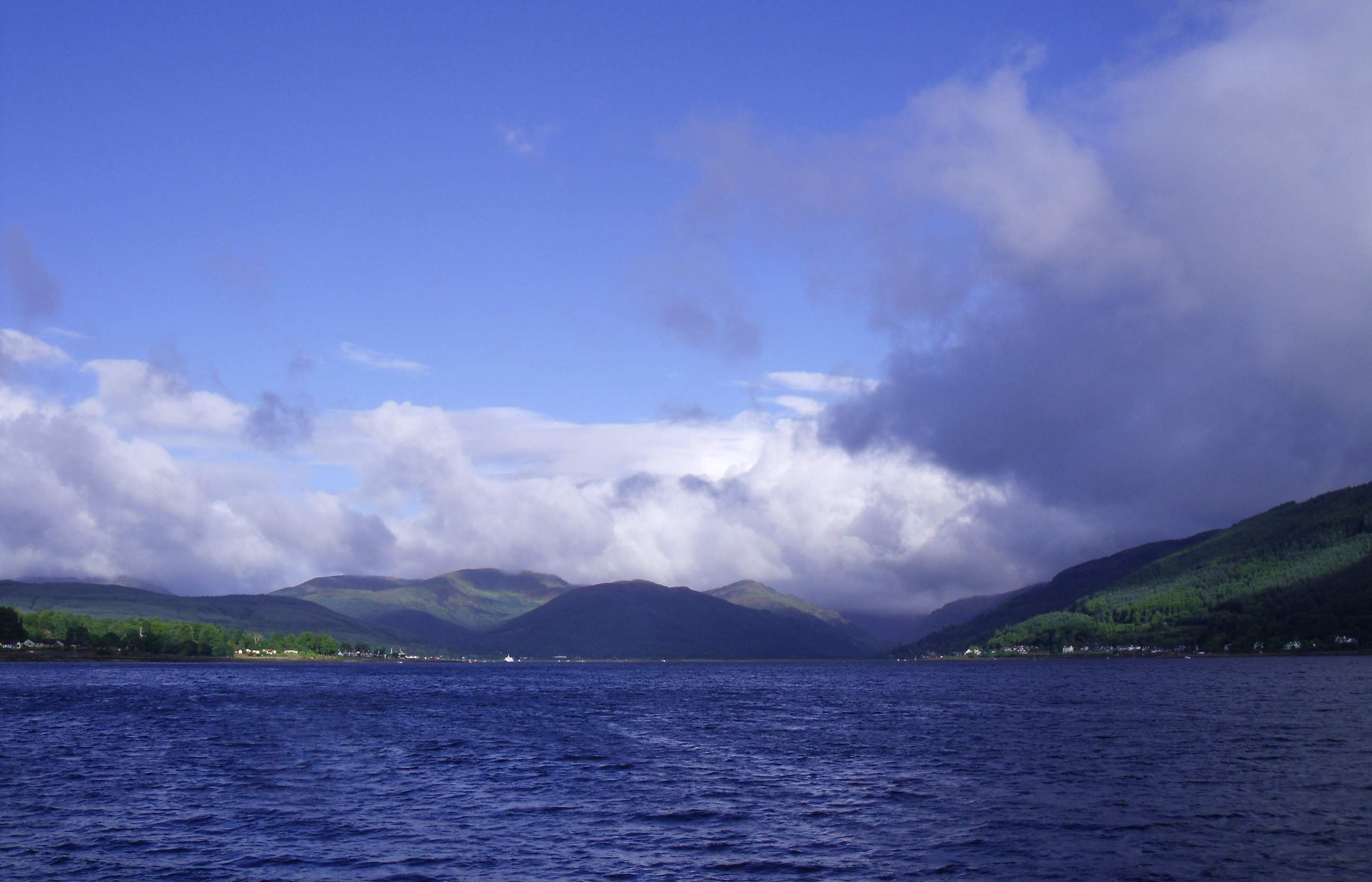 Rain shower passed (more to come though) Short Ferry Crossing from MacInroy's Point, Gourock to Hunter's quay Dunoon (Western Ferries) en rute to Cowal Highland Gathering. The weather changed by the minute, but the views remained magnificent